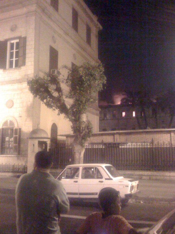 Shoura Council (Egyptian Parliament) building on fire